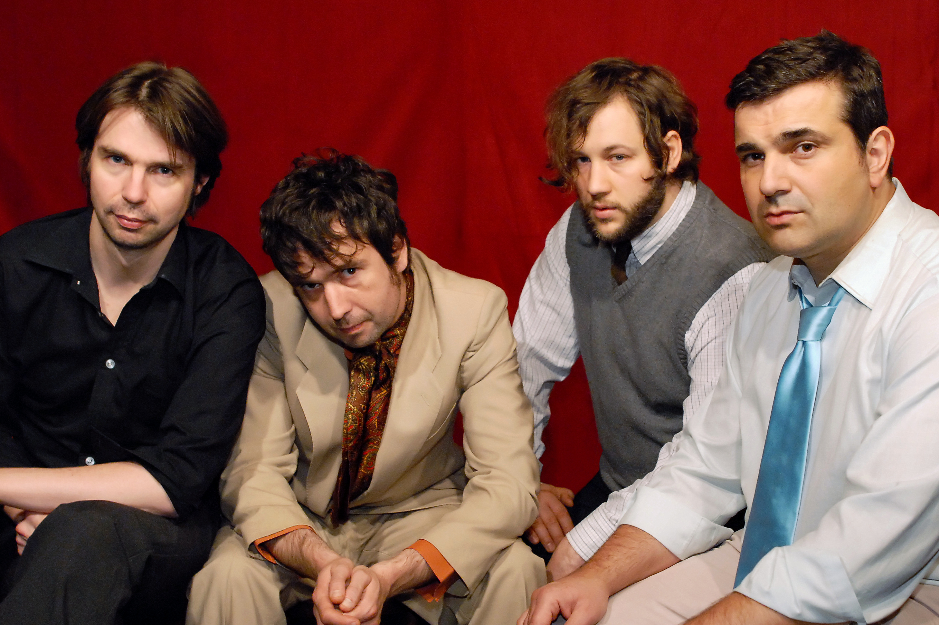 Bernd Begemann (far right) and his band „Die Befreiung“, this foto was taken for the album „Glanz“, 15. October 2007